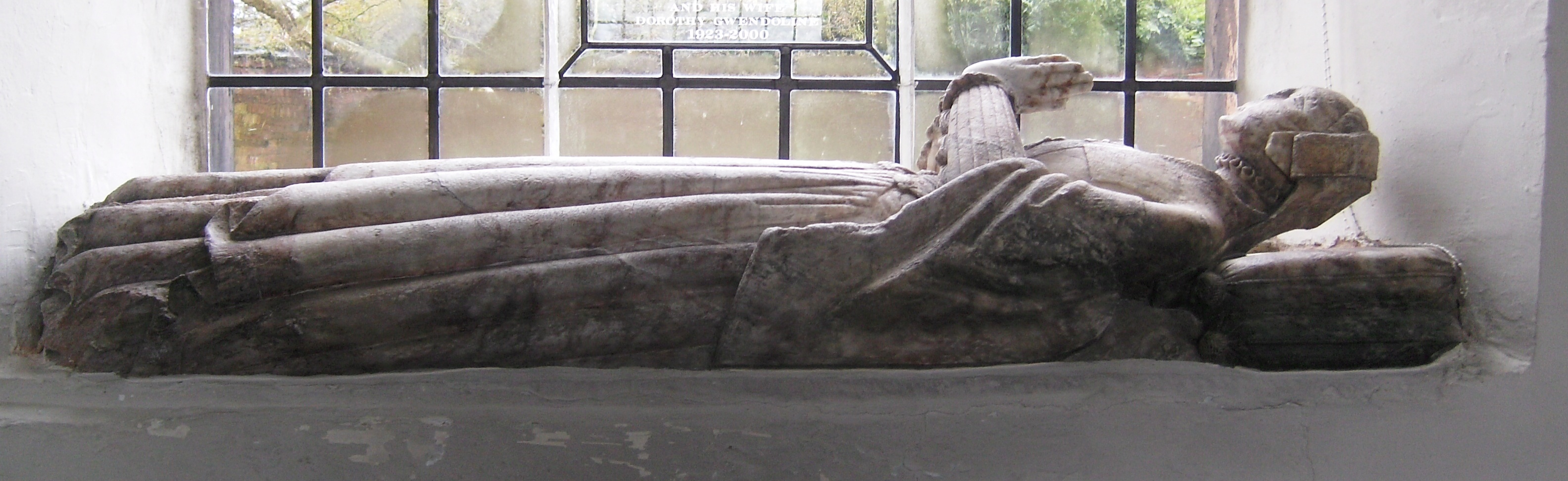 Effigy of Cassandra Giffard of Chillington, wife of Humphrey Swynnerton. Shareshill parish church, Staffordshire.